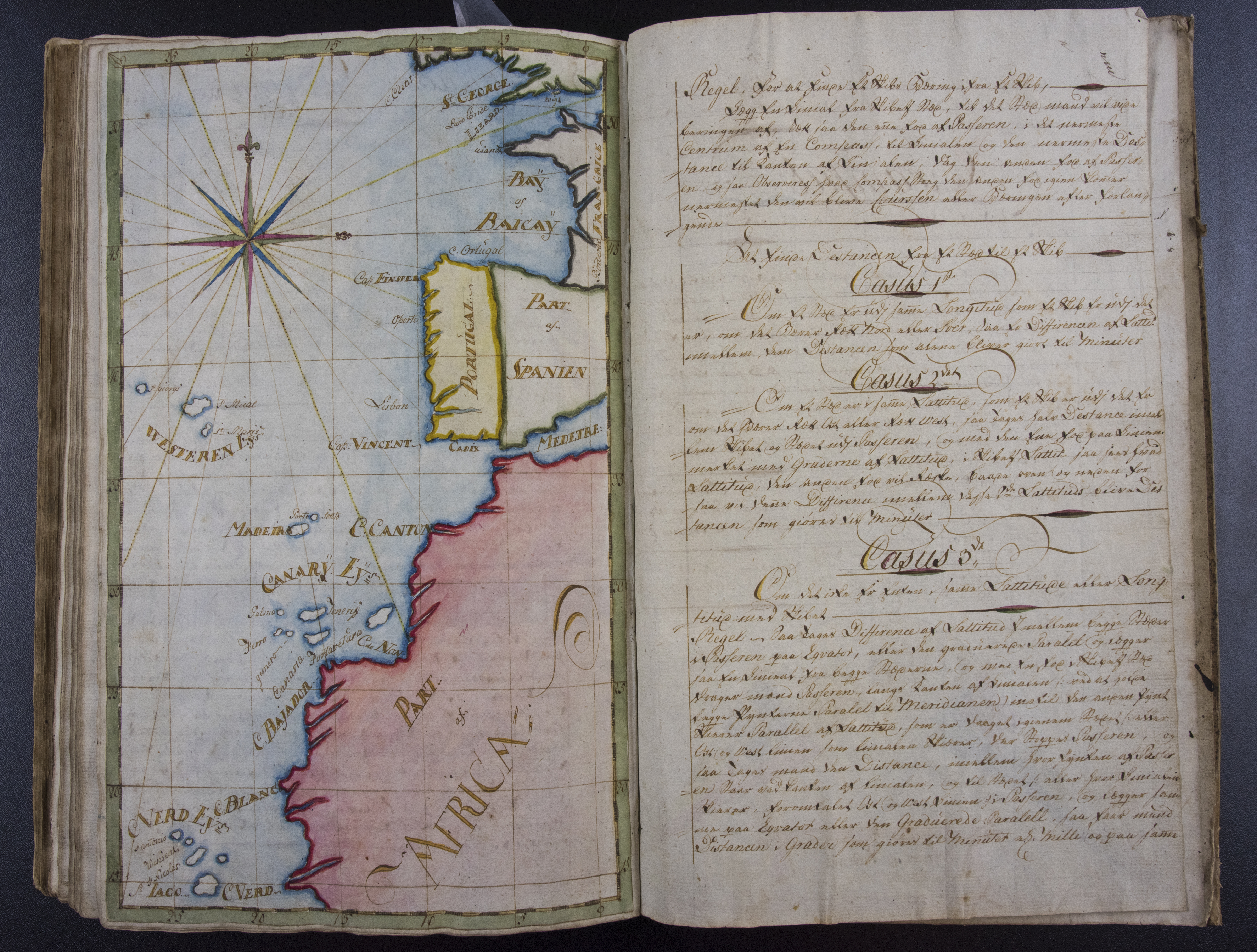 Handwritten navigation book